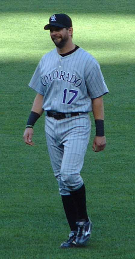 Todd Helton of the Rockies.